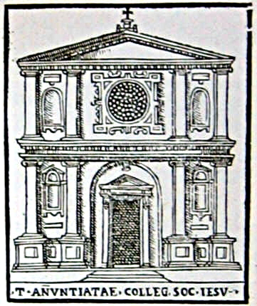 Santa Maria Annunziata al Collegio Romano by Girolamo Francino (1588)